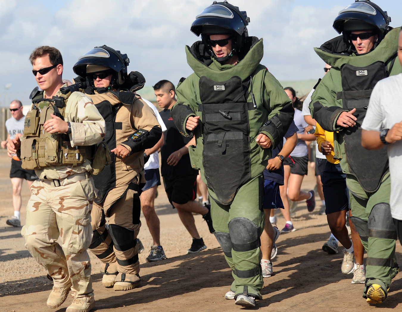 Lt. j.g. John Maurus (left), Explosive Ordnance Disposal Team 11 leader, runs with members of his team during the EOD Memorial 5-K Run April 2, 2011 at Camp Lemonnier, Djibouti. Photo by U.S. Air Force Master Sgt. Dawn Price More than 60 Combined Joint Task Force–Horn of Africa Soldiers, Sailors, Airmen and Marines took part in the Explosive Ordnance Disposal Memorial 5-K Run April 2, 2011 at Camp Lemonnier, Djibouti. “This run symbolizes the unselfish and unyielding dedication to one another that we all share as service members,” said Gunnery Sgt. Eric Allen, a U.S. Marine Corps participant. “It’s extremely important to honor those who paid the ultimate price for our nation.” Petty Officer 3rd Class Ryan Donofrio, Petty Officer 2nd Class Barry Despot and Petty Officer 1st Class Dave Lyman, all EOD technicians, ran the 3.1-mile course while wearing bomb disposal suits that weigh approximately 85 pounds each. “You don’t honor someone by doing something easy, you do something hard to recognize their sacrifice,” said Lyman. “Wearing the suit was one way to do that, even if it doesn’t really come close to their hardship.” To learn more about U.S. Army Africa visit our official website at Official Twitter Feed: Official Vimeo video channel